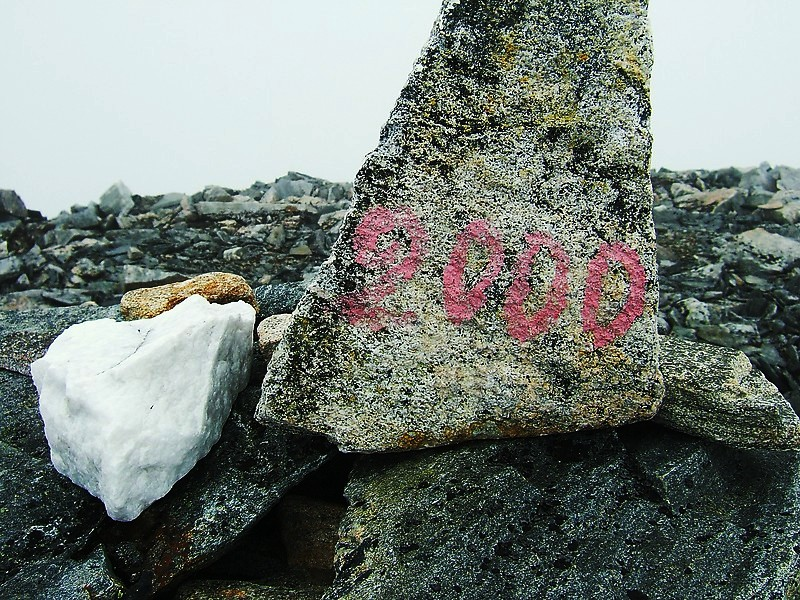 Own work, August 2005 On the top of Puttegga in Tafjordfjella (elevation 1999 m), made by people wanting it to be a 2K-summit..